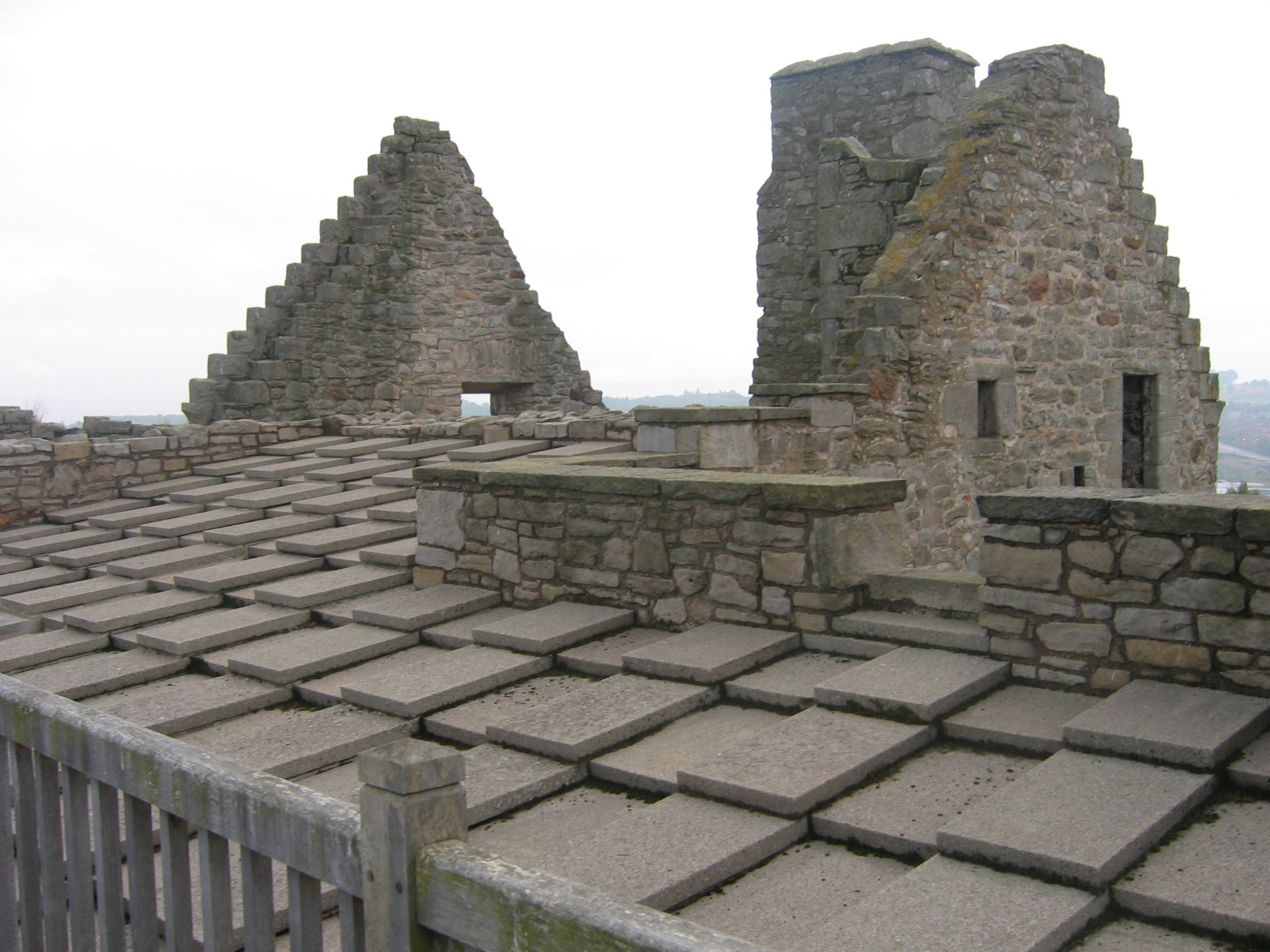 Craigmillar Castle, Edinburgh, Scotland. Roof of the tower house.